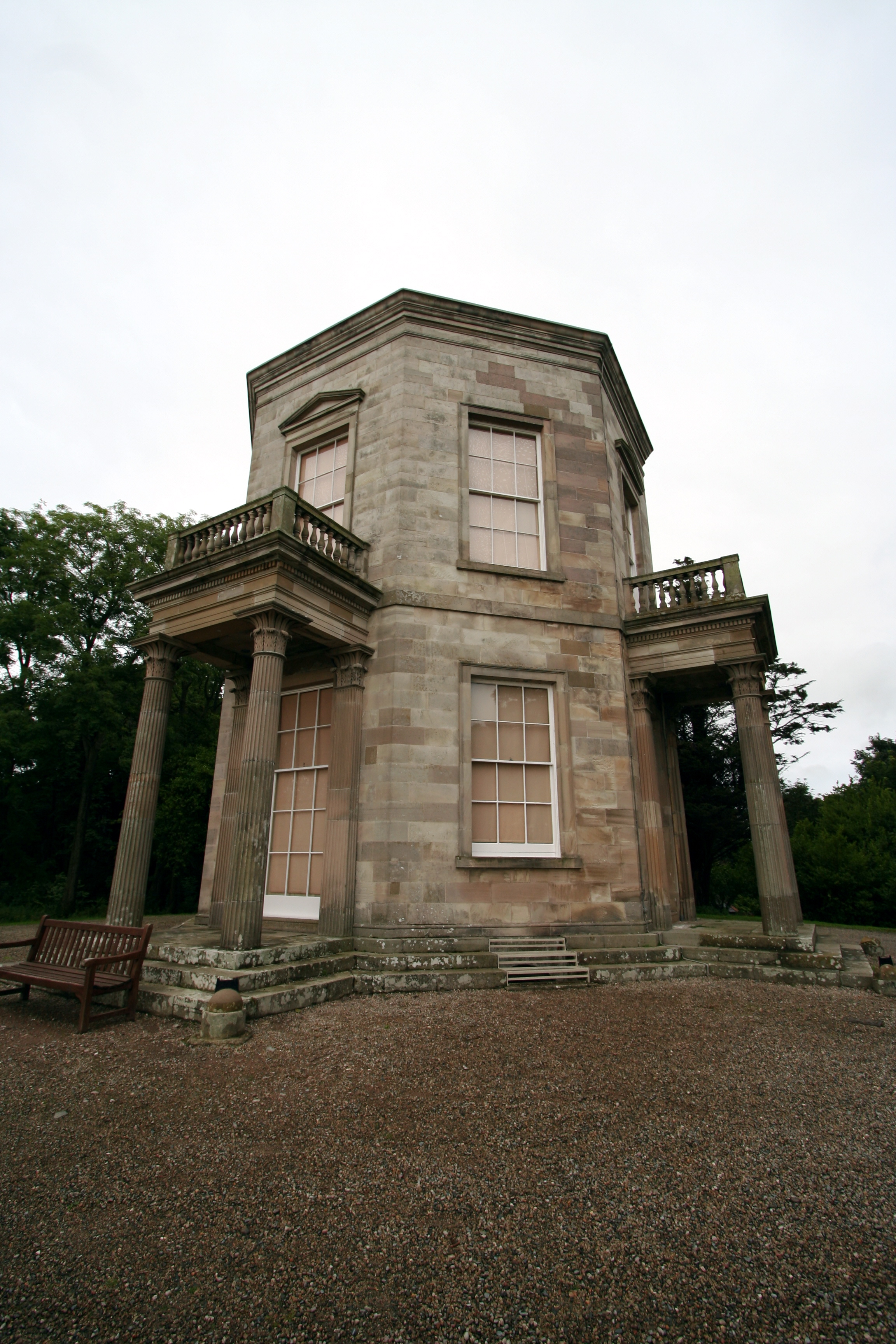 Mount Stewart, the neoclassical 'Templo de los Vientos' in landscape garden, County Down, North Ireland.Mount Stewart